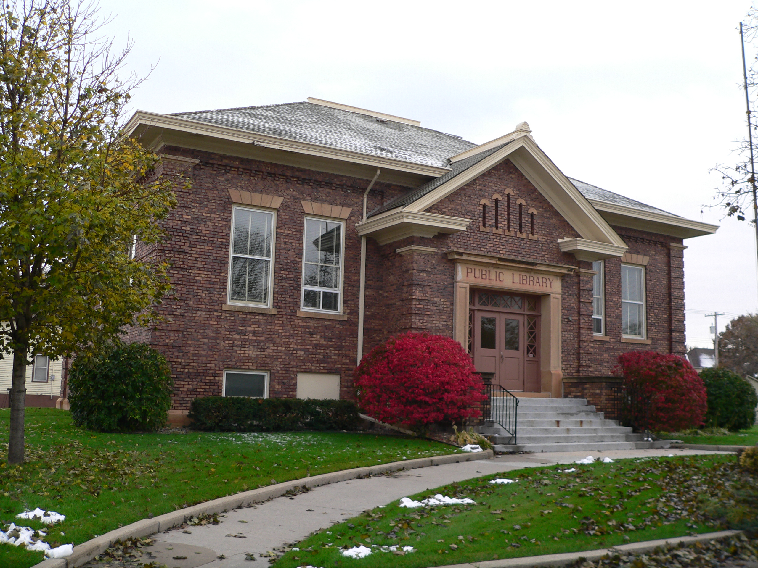 The Norfolk Carnegie Library building at 803 W Norfolk Avenue, Norfolk, Nebraska, seen from the northeast. The building is on the National Register of Historic Places. It was built in 1910 in Classical Revival style; the architects were J. C. Stitt and L. H. Woerth. It is no longer used as a library; it is currently occupied by JEO Consulting Group Inc.